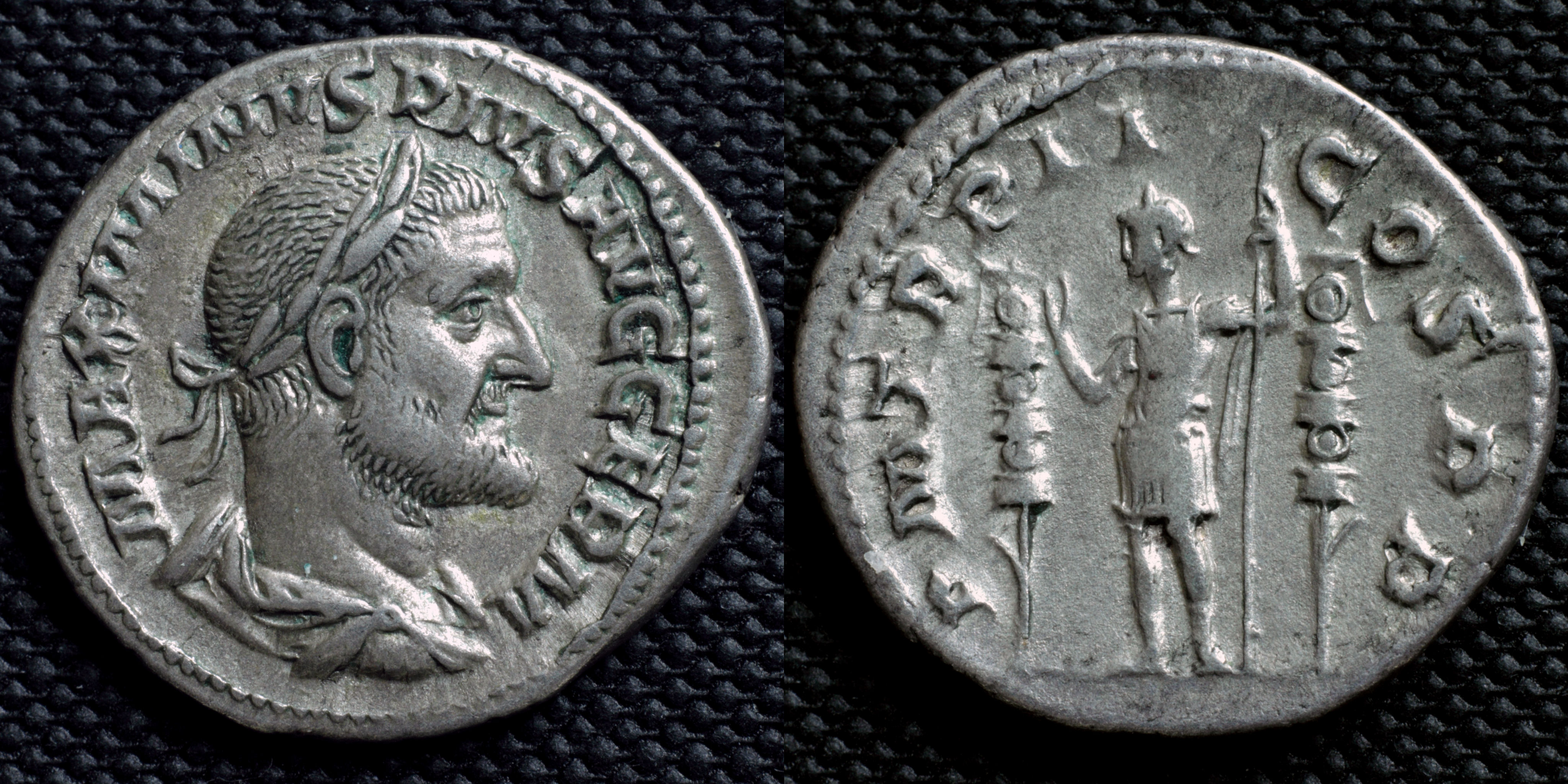 Maximinus Thrax AR denarius struck in Rome February - December 236 AD obverse: laureate, draped cuirassed bust right MAXIMINVS PIVS AVG GERM reverse:Maximinus standing left, raising hand and holding scepter; standard on either side P M TR P II_COS P P references: RIC 4, C 56; weght: 3,01 g; diameteer: 20-19 mm